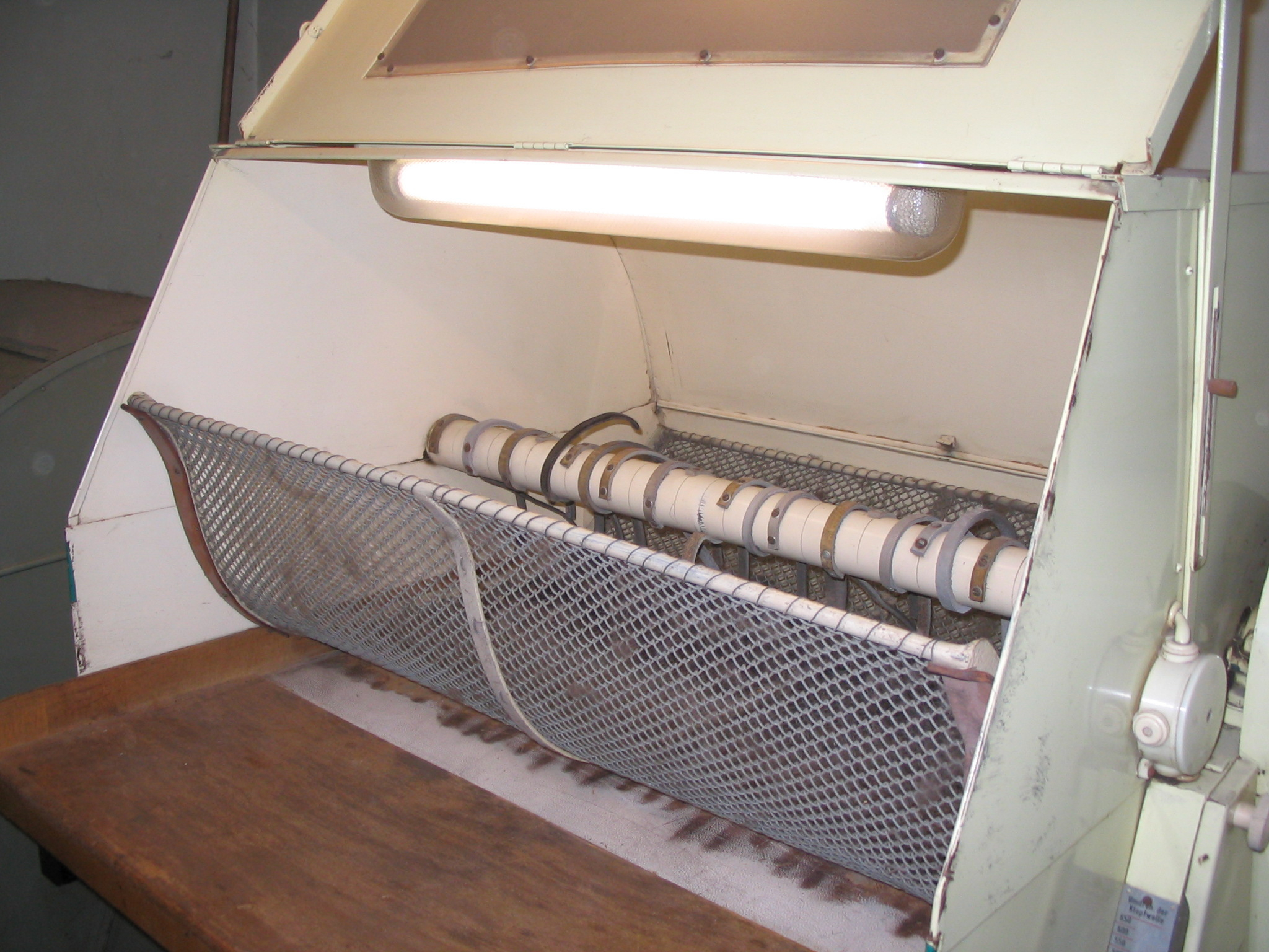 Furrier's tools: Fur beating machine